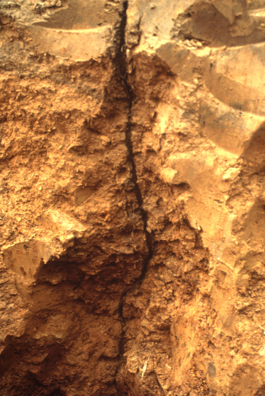 Earthworm - L. terrestris - permanent vertical burrow photo